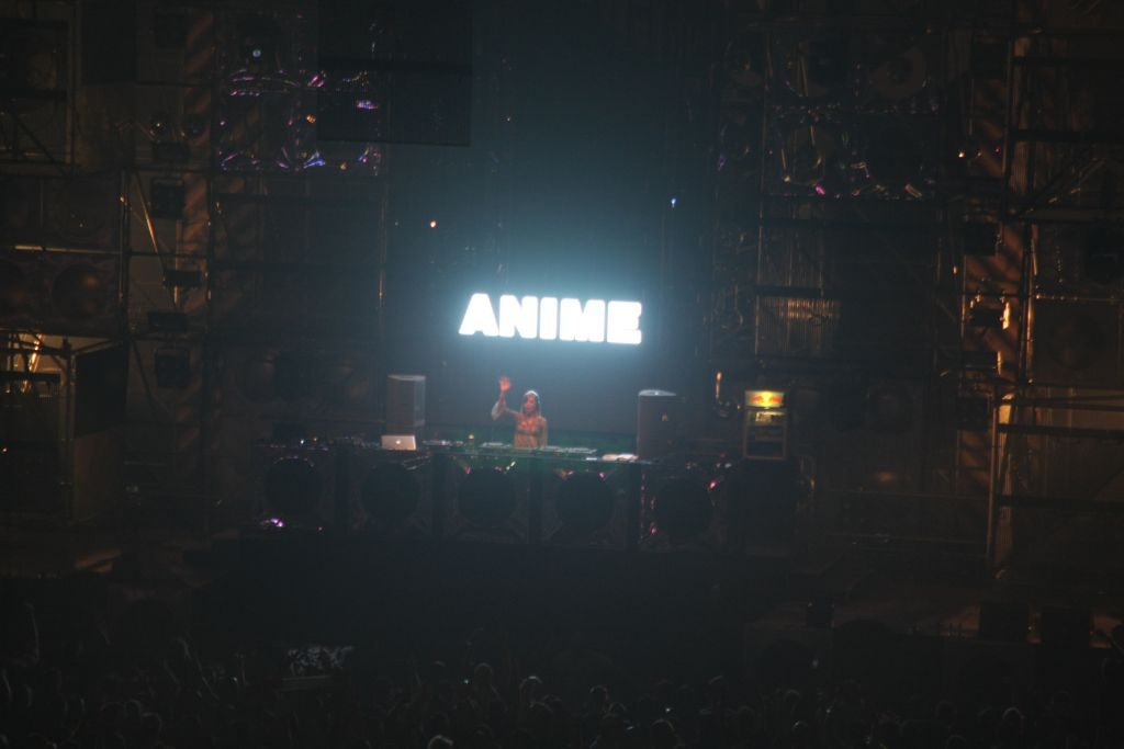 AniMe at the Masters of Hardcore area at Syndicate 2010.